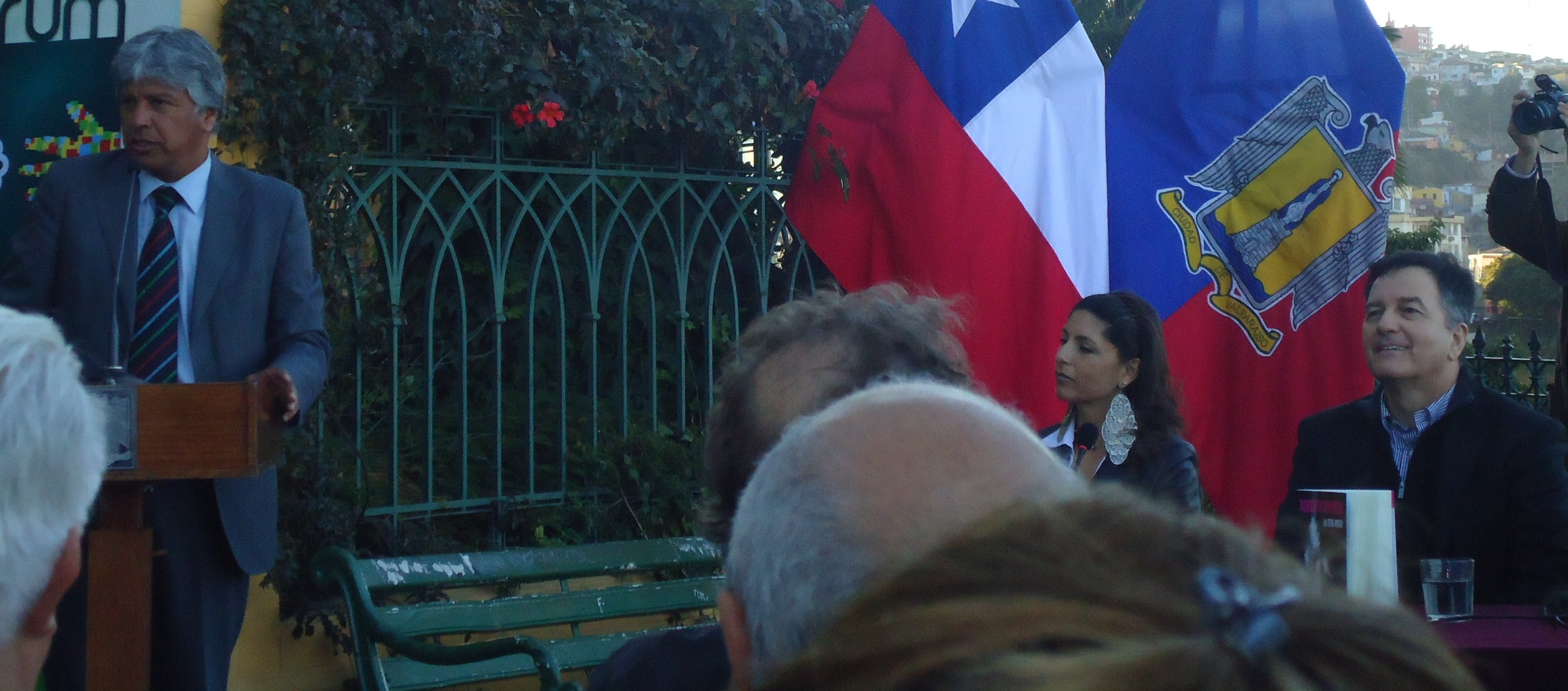 Jorge Castro, Mayor of Valparaíso, Presenting La Otra Mujer of Roberto Ampuero